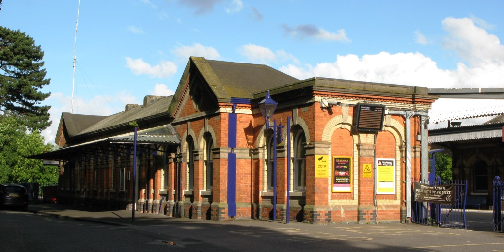 The main buildings at Taplow station, seen from the road on the north side of the railway.